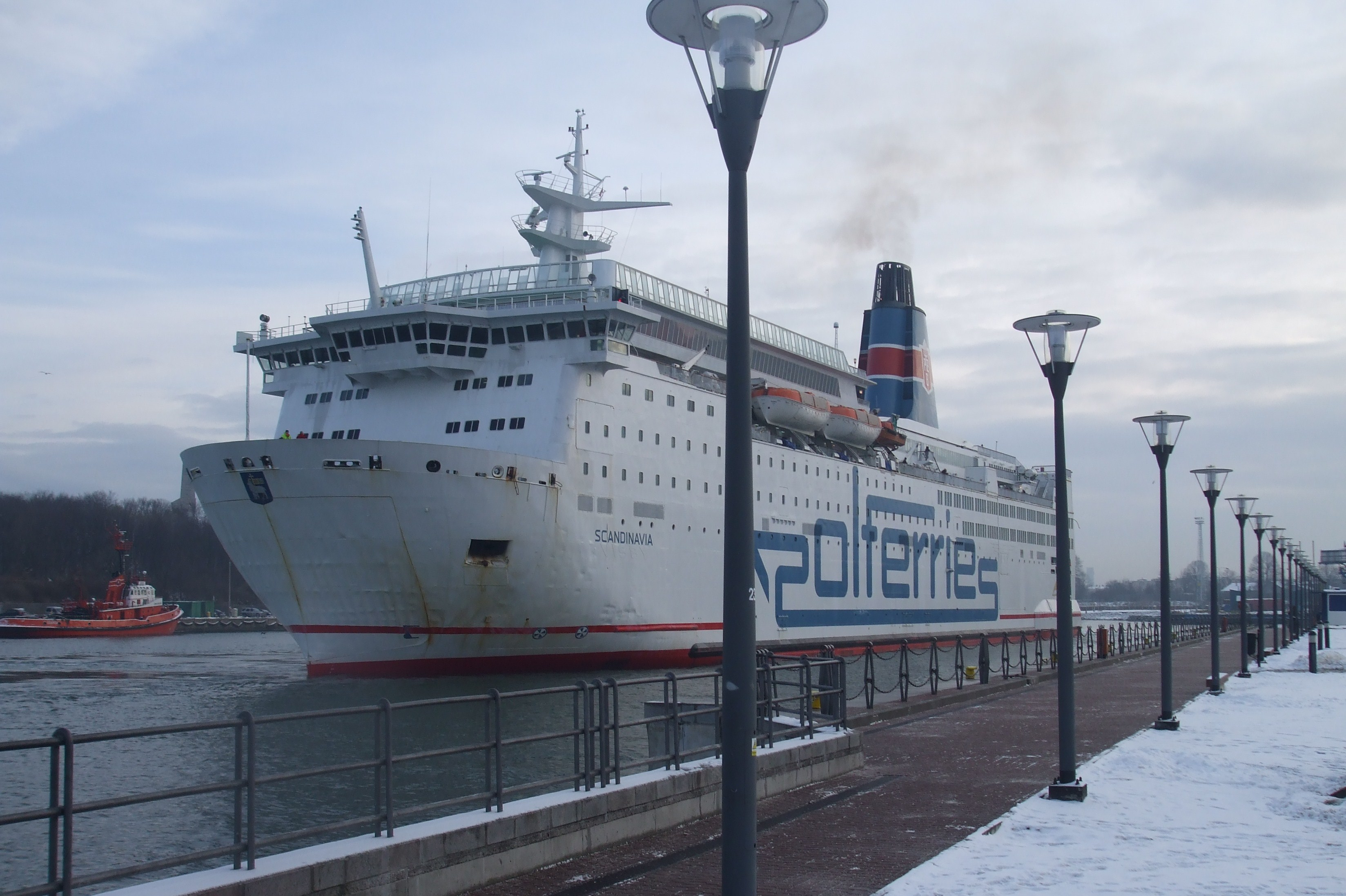 A Polferries ferry ("Scandinavia") in Gdańsk Nowy Port (Poland).